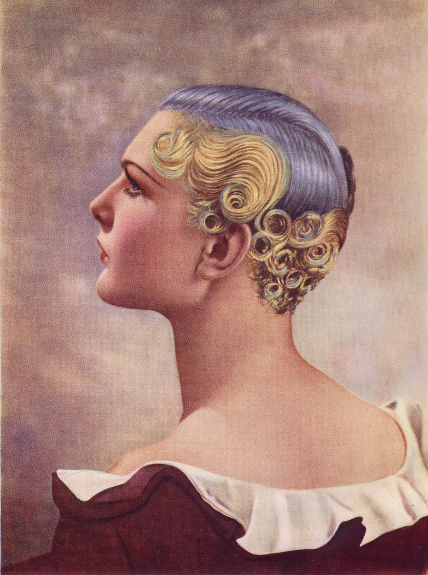 This model won First Prize at the Hairdressing Fashion Exhibition in London 1935. The trend to shorter hair has progressed exposing the neck and ears. The colour effect was achieved by incorporating pigments in the setting lotion.